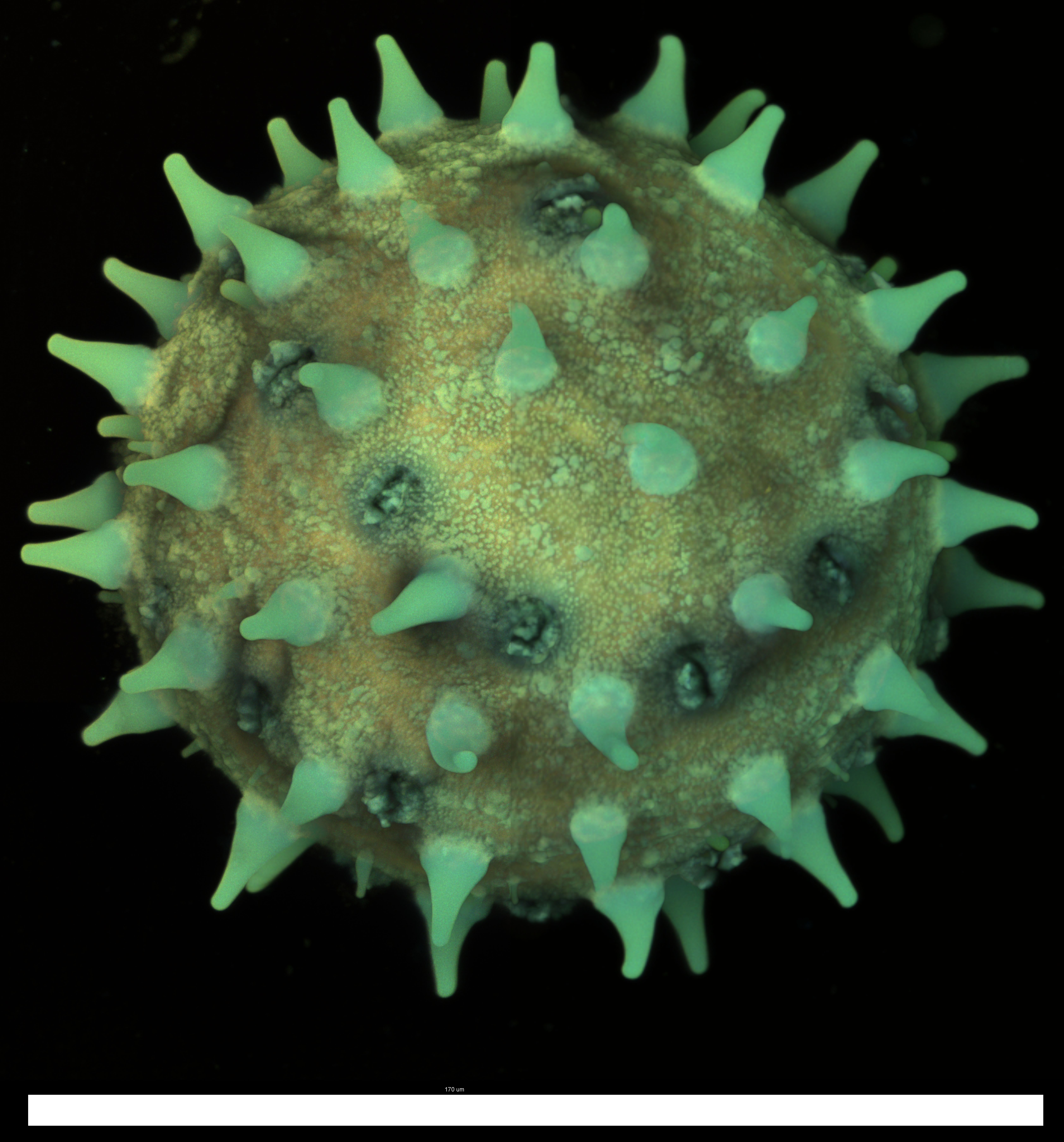 Pollen of Hibiscus. Autofluorescence in 3 color channels excited with 405 nm. Projection of confocal images.